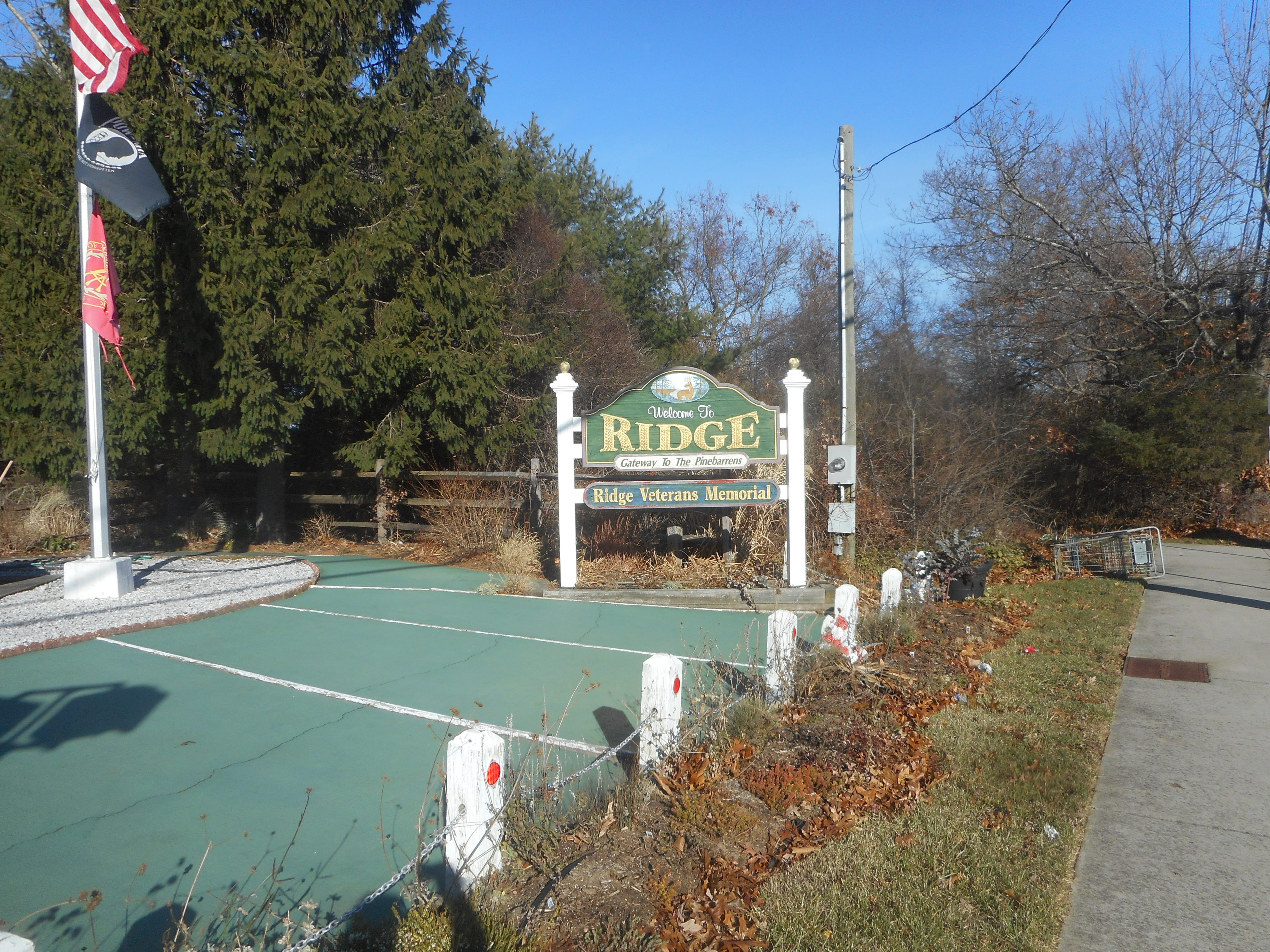 Welcome sign at the Ridge Veterans Memorial on the northeast corner of New York State Route 25 (Middle Country Road) and Ridge Road in Ridge, New York. The sign dubs the community as "The Gateway to the Pine Barrens, which it misspells as "Pinebarrens." To be honest, motorists and others are already well in the community once they see this sign.